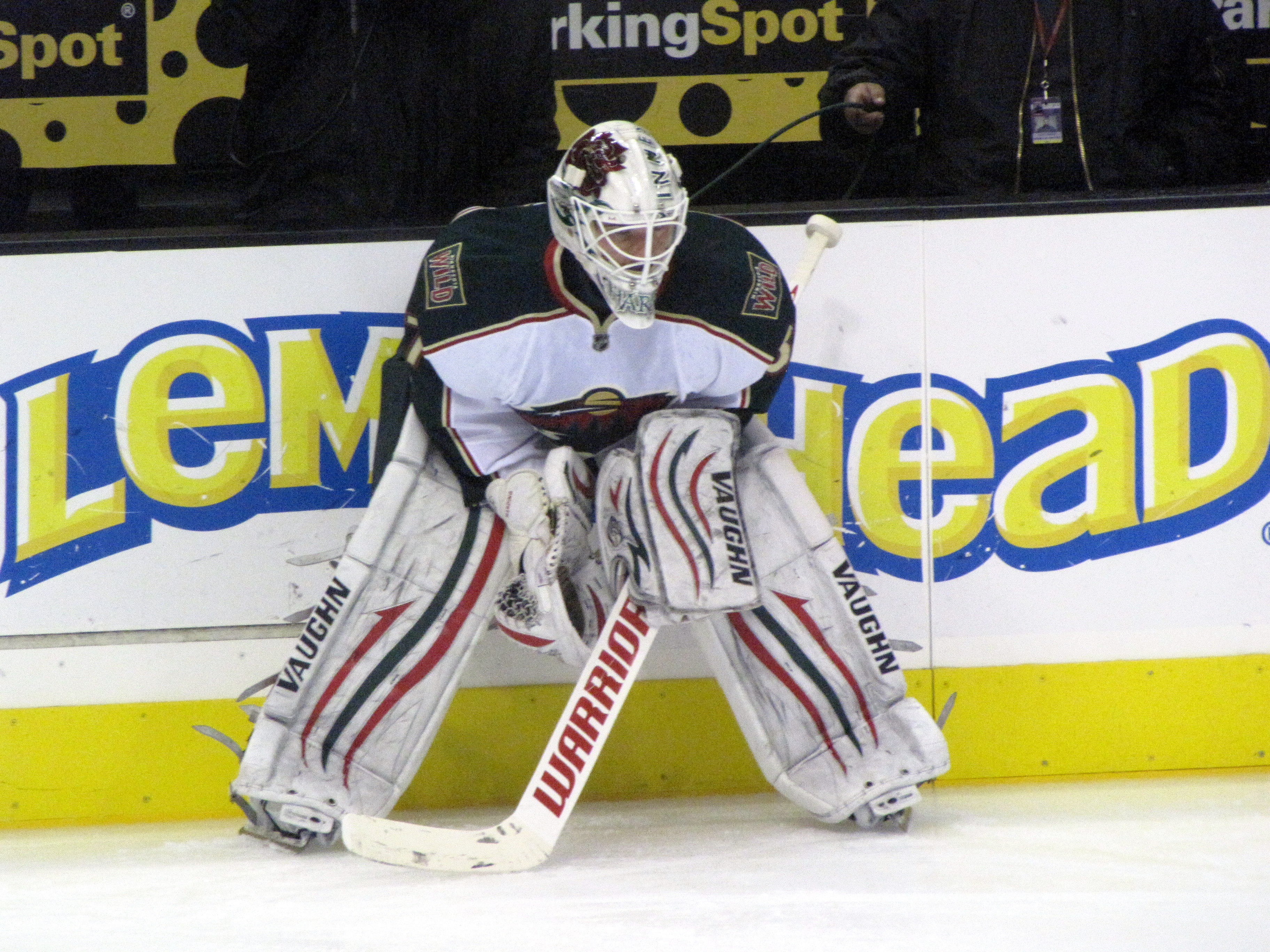 Goaltender Josh Harding of the Minnesota Wild prior to a game against the Los Angeles Kings on December 12, 2011.